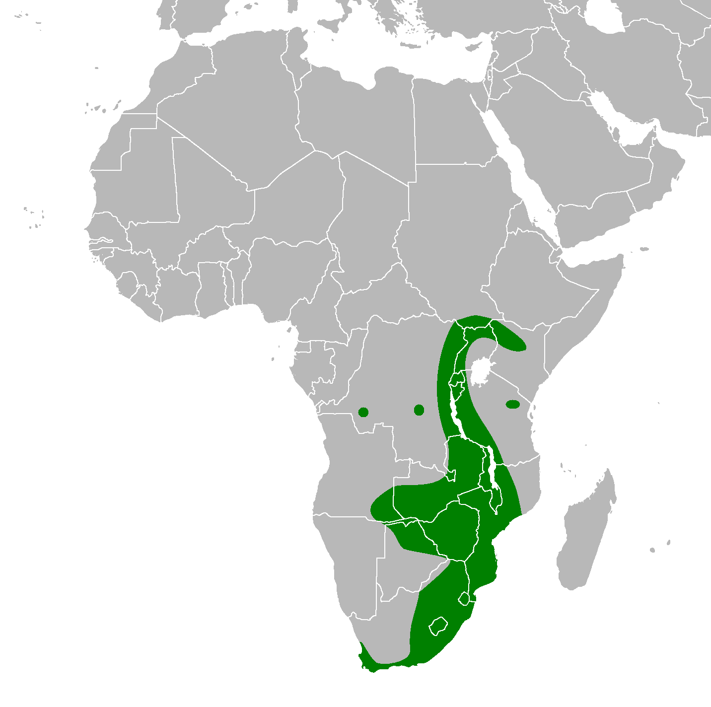 Distribution of the African Marsh Harrier (Circus ranivorus). Based on: Robert E. Simmons: Harriers of the World. Their Behaviour and Ecology. Oxford University Press, New York 2000. ISBN 0-19-854964-4, p. 13.